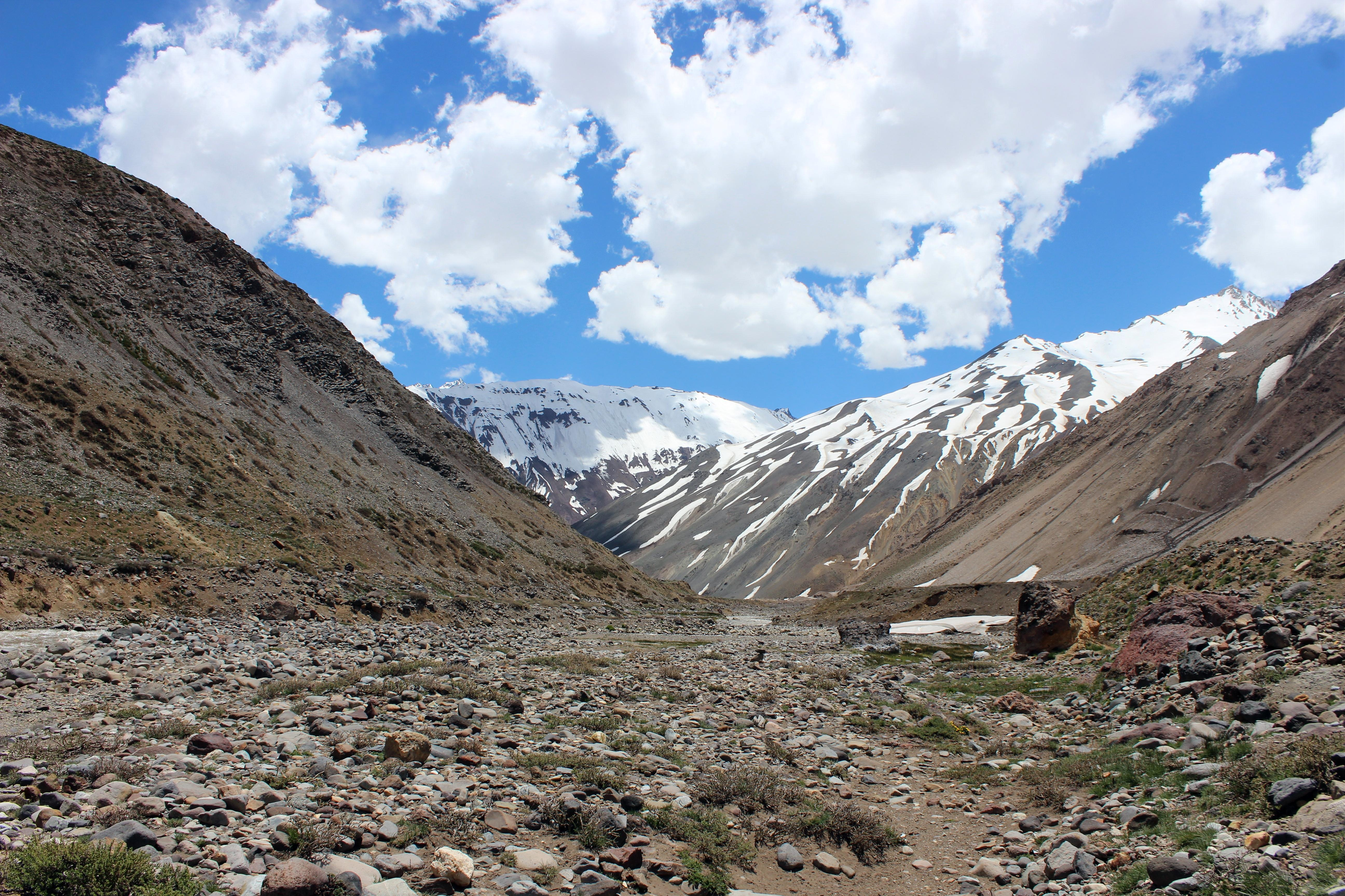 Cajon Del Maipo Chile El Yeso Valley